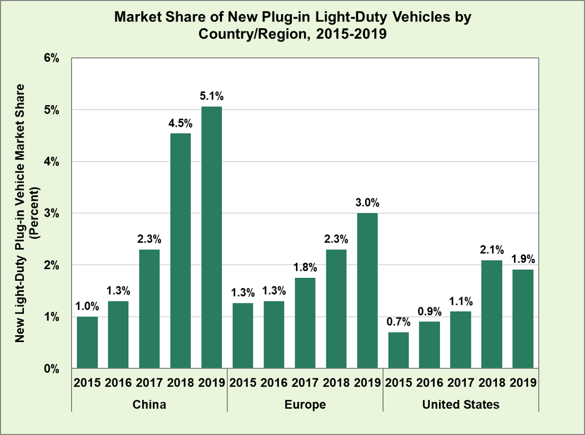 Market share of new plug-in light-duty vehicles by country/region between 2015 and 2019. Shows a comparison of the evolution of the market share in China, Europe and the United States.